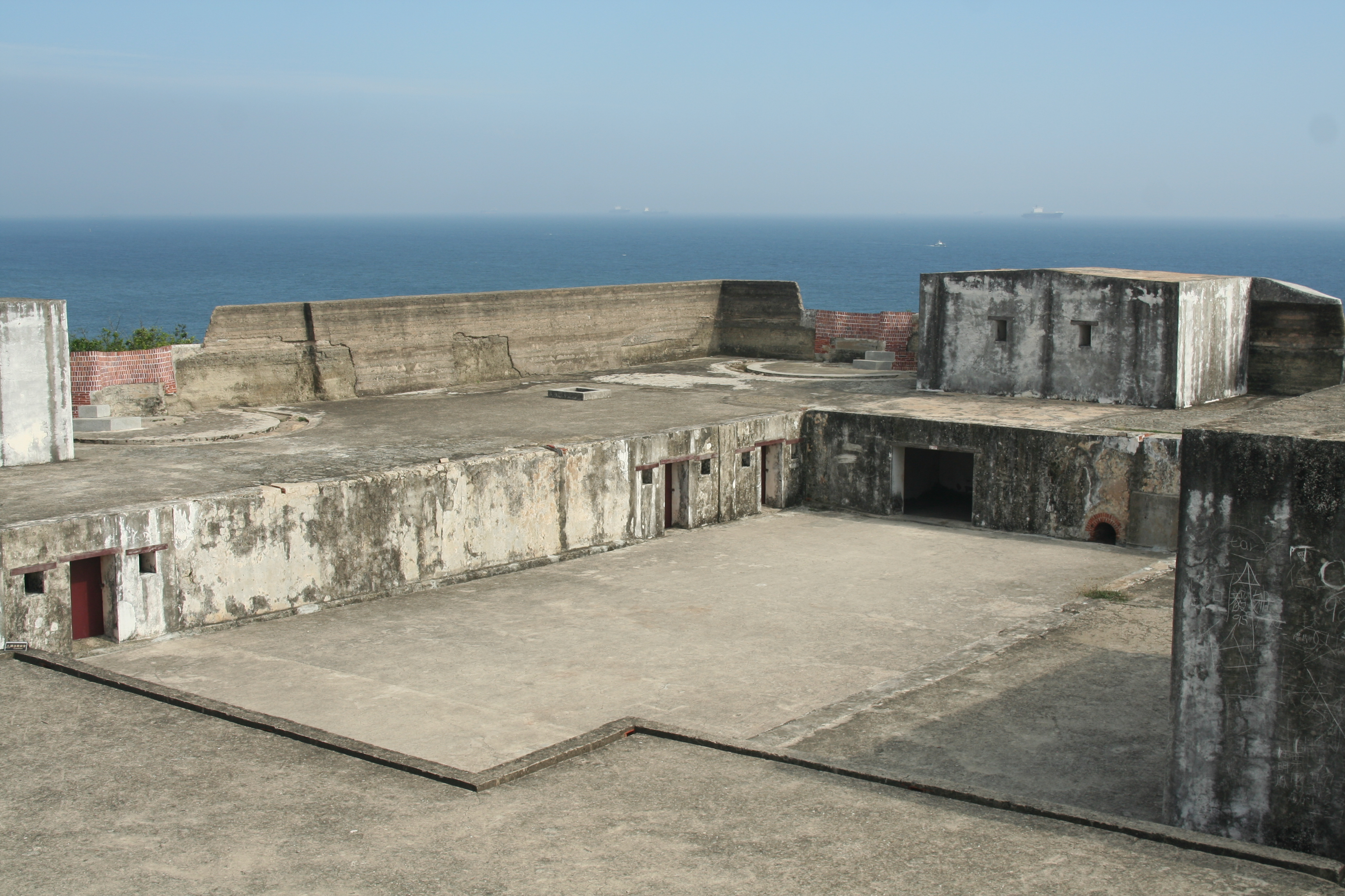 Main battery of Fort Qihou, Gaoxiong, Taiwan. Two cannon emplacement visible, Taiwan Strait in the background.